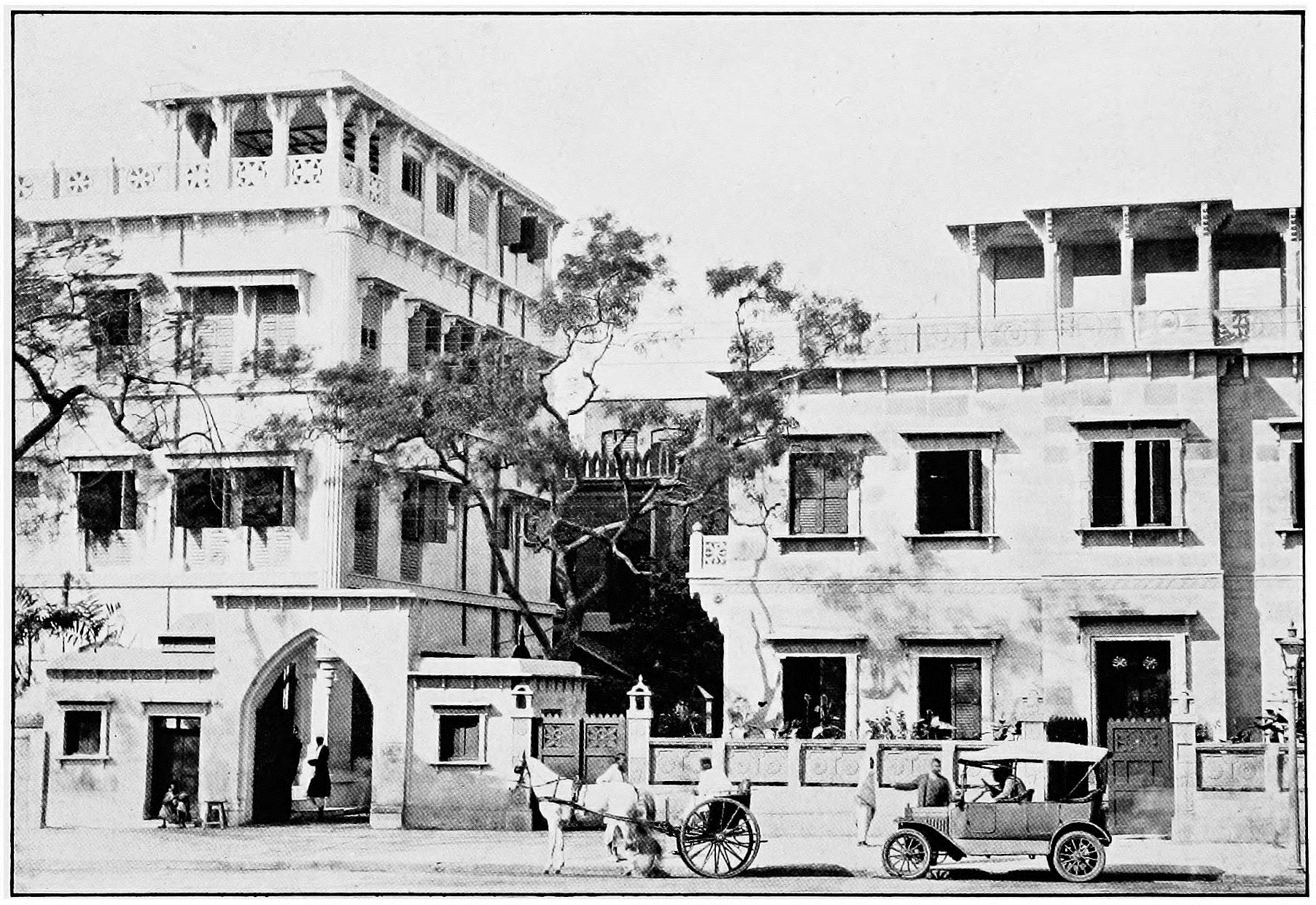 Photograph of Bose Institute from The Life and Work of Sir Jagadis C. Bose